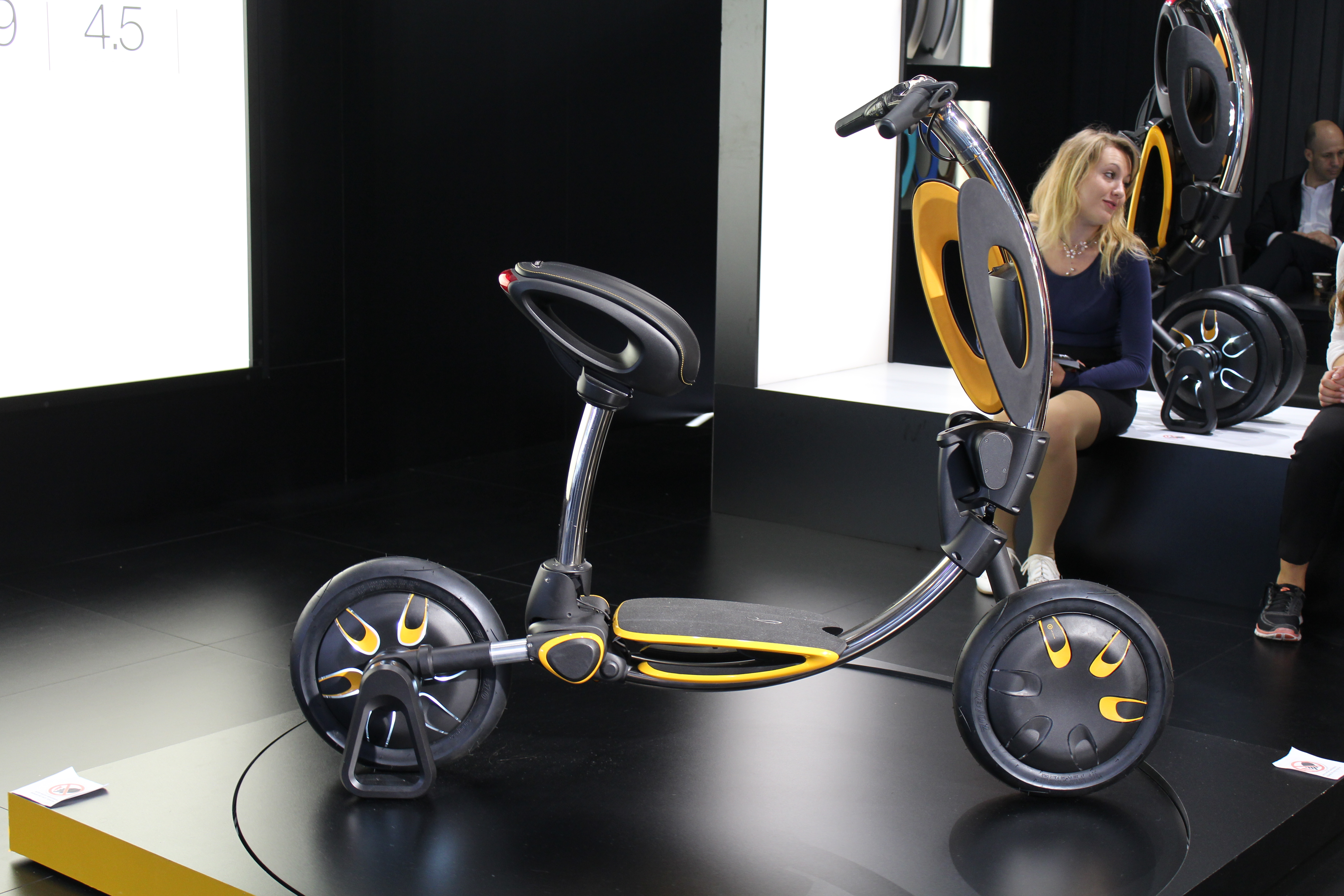 Passenger vehicle being displayed in 2015 International Motor Show Germany.